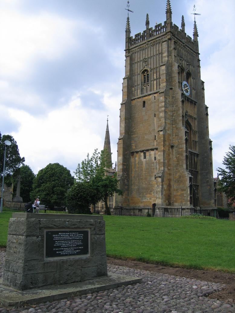 Site of the grave of Simon de Montfort, on the site of the former Evesham Abbey and in front of the bell tower that still stands.